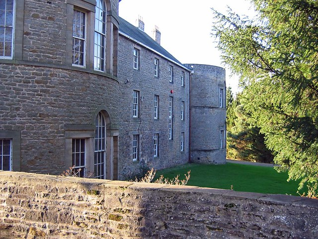 Croxdale Hall Once again a private house, the hall has billeted troops during World War II and later served as a maternity home.